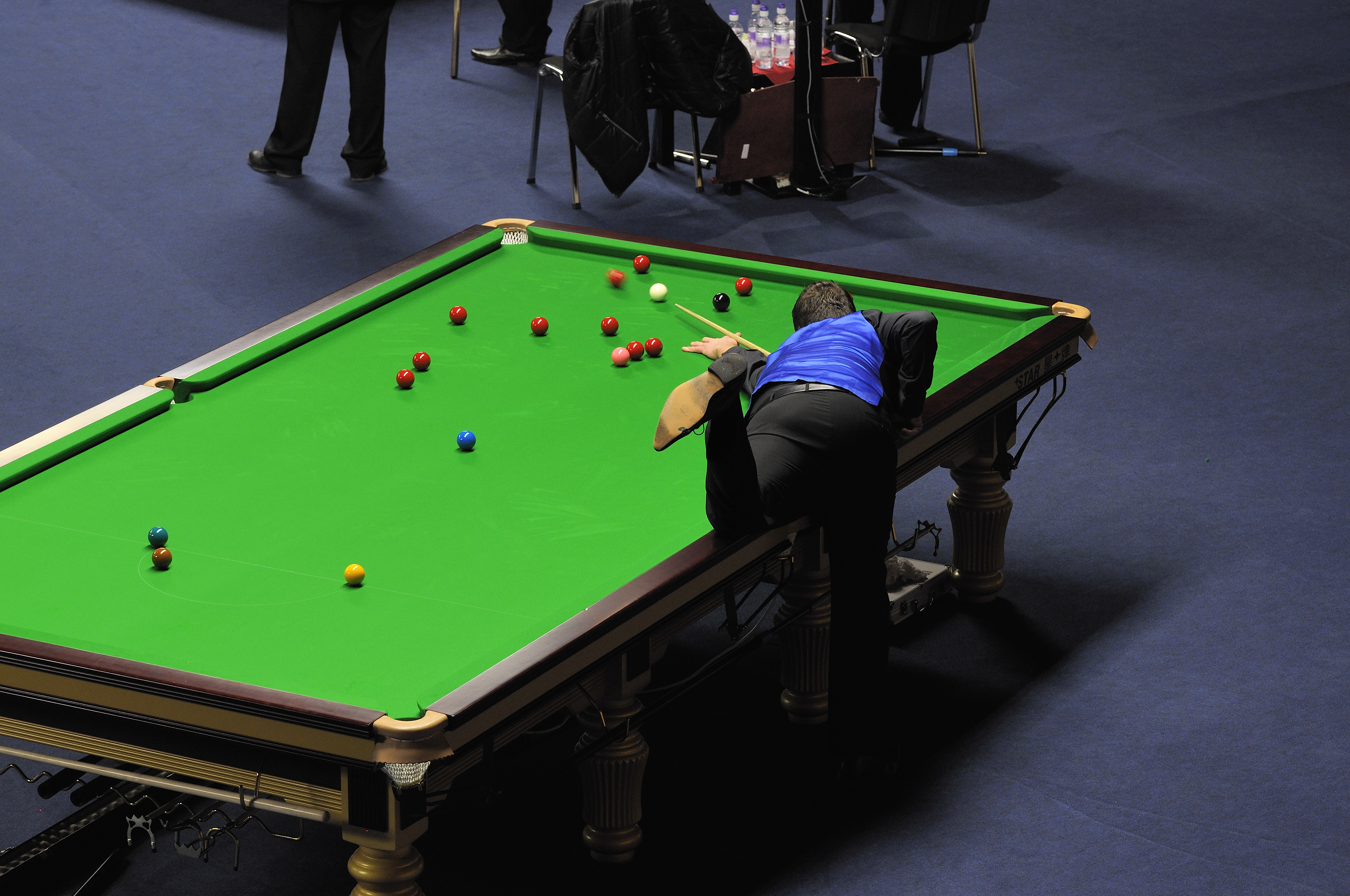 Picture taken in Berlin during the Snooker German Masters in 2013. Matthew Stevens.